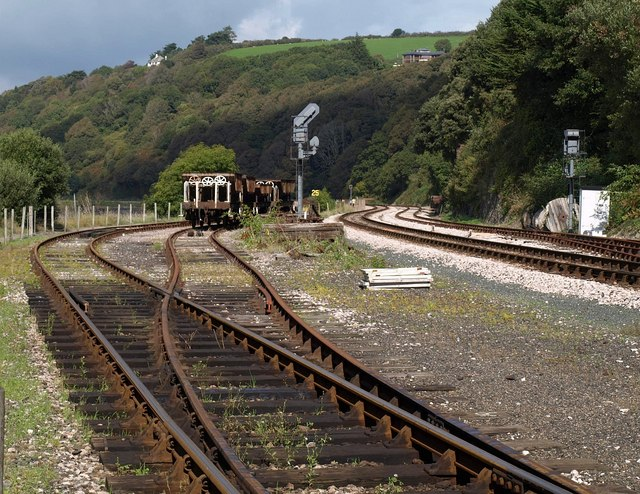 Railway sidings, Kingswear Kingswear Footpath 22 runs alongside the Paignton & Dartmouth Steam Railway line. Those on the left are sidings. Beyond, the line runs between the Dart estuary and steep wooded slopes below Hoodown.